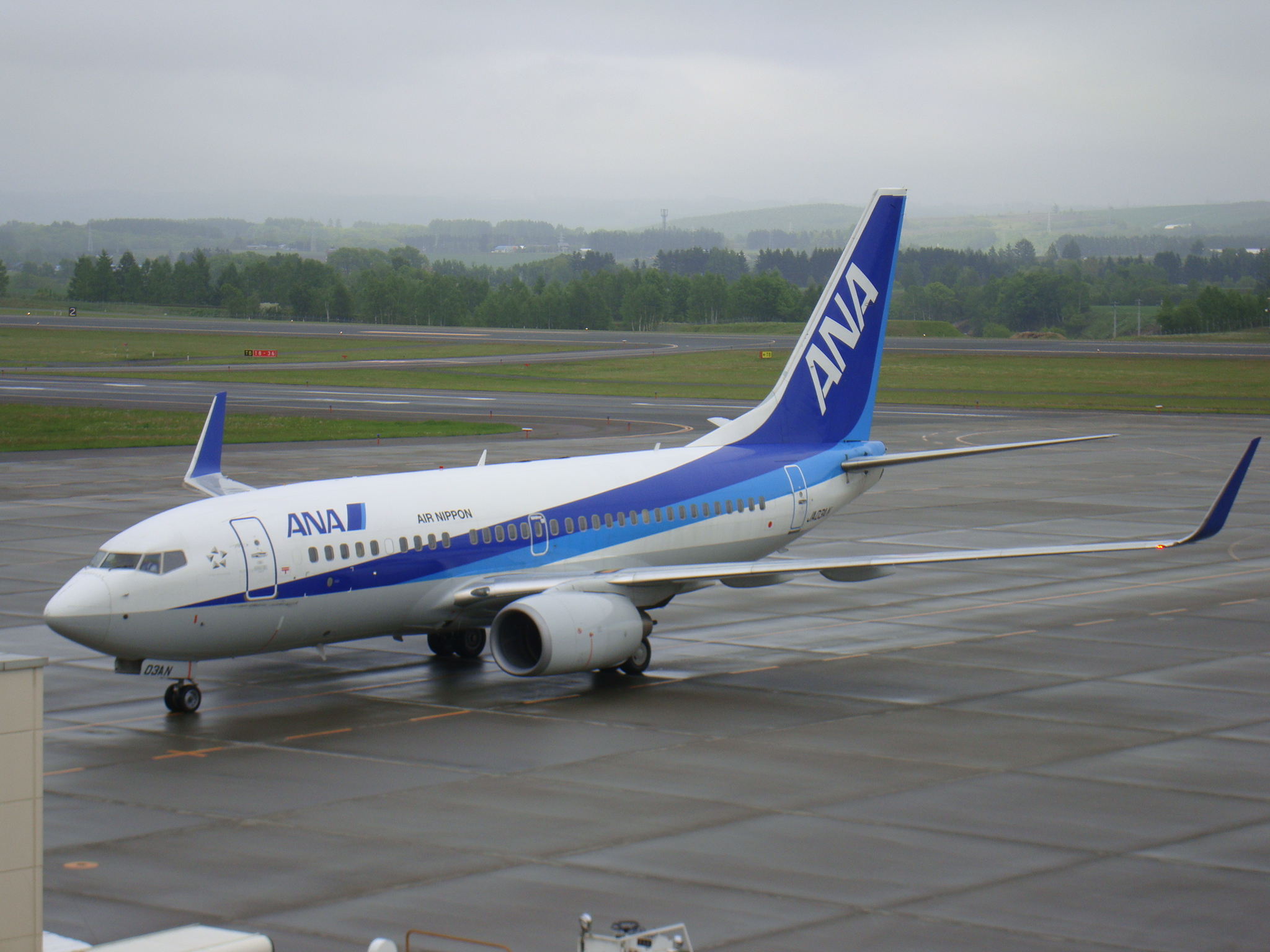 All Nippon Airways(Air Nippon) Boeing 737-700 JA03AN